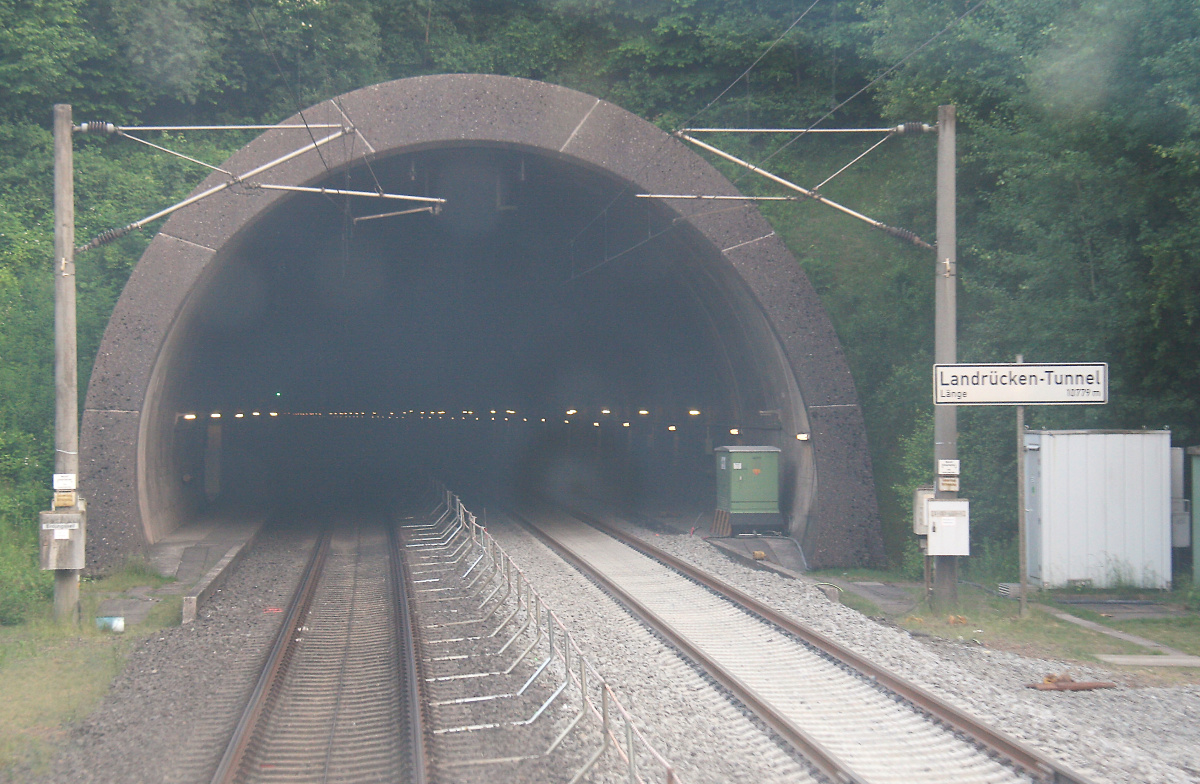 The north entrance to the Landrücken tunnel, the longest tunnel in Germany. A few days after this shot was taken, the second track went in operation again. Two months earlier, an ICE train had crashed into several sheep at that position.